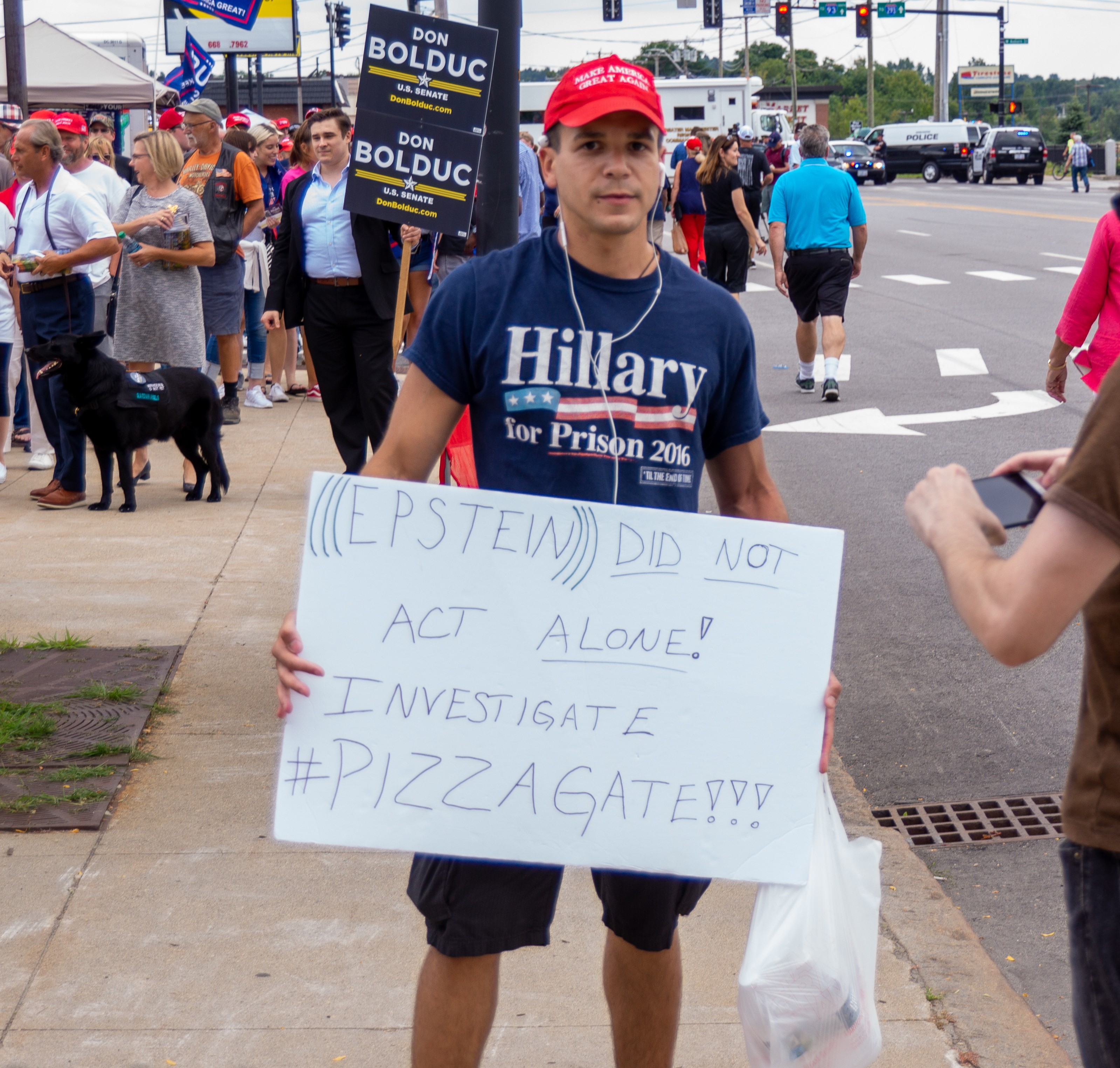 A conspiracy theorist with a sign reading "(((EPSTEIN))) DID NOT ACT ALONE! INVESTIGATE #PIZZAGATE!!!". The triple parentheses around Epstein's name are an antisemitic symbol identifying Epstein as Jewish.